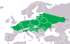 Distribution of Pelophylax lessonae